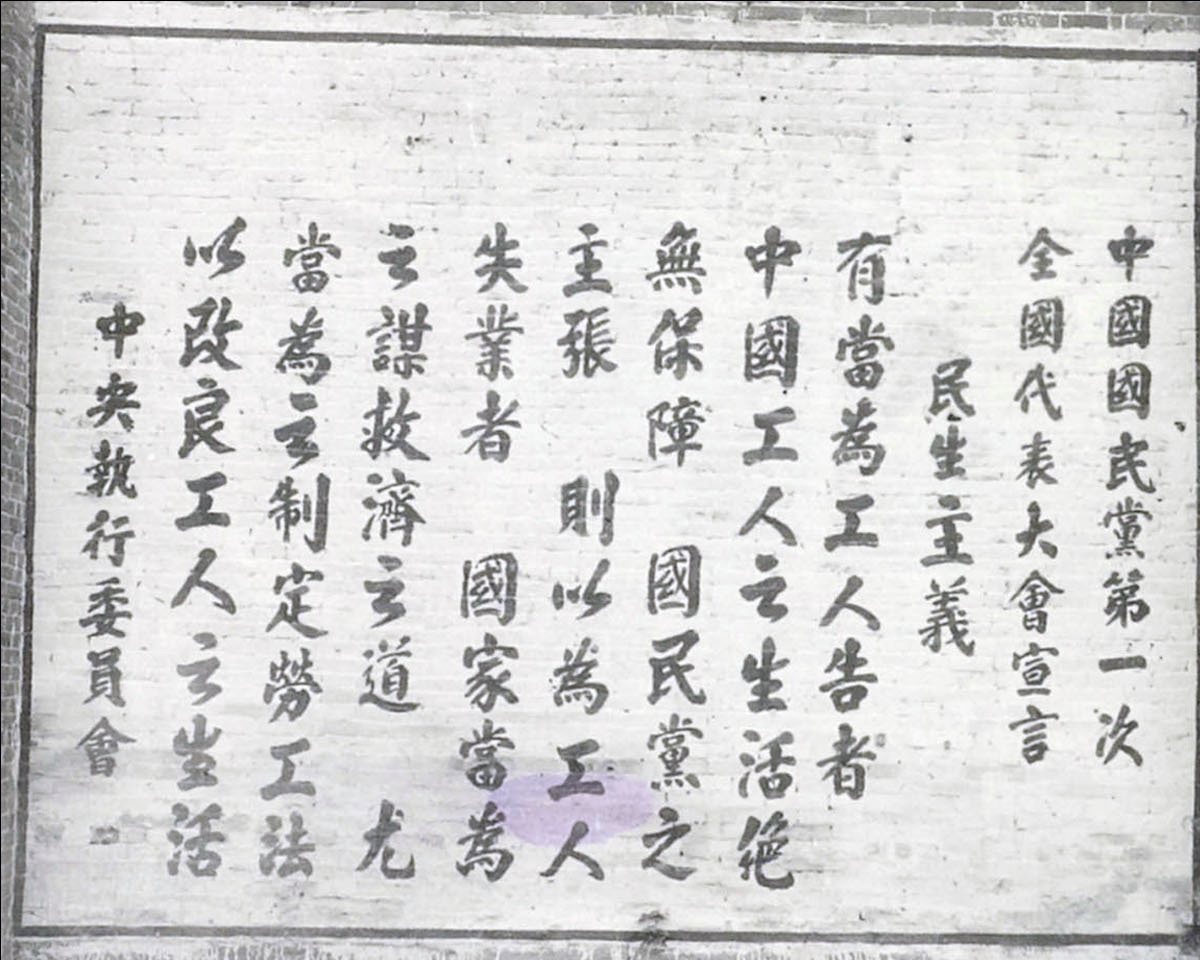 The Principle of Mínshēng(1st National Congress of Kuomintang of China), Guangzhou.